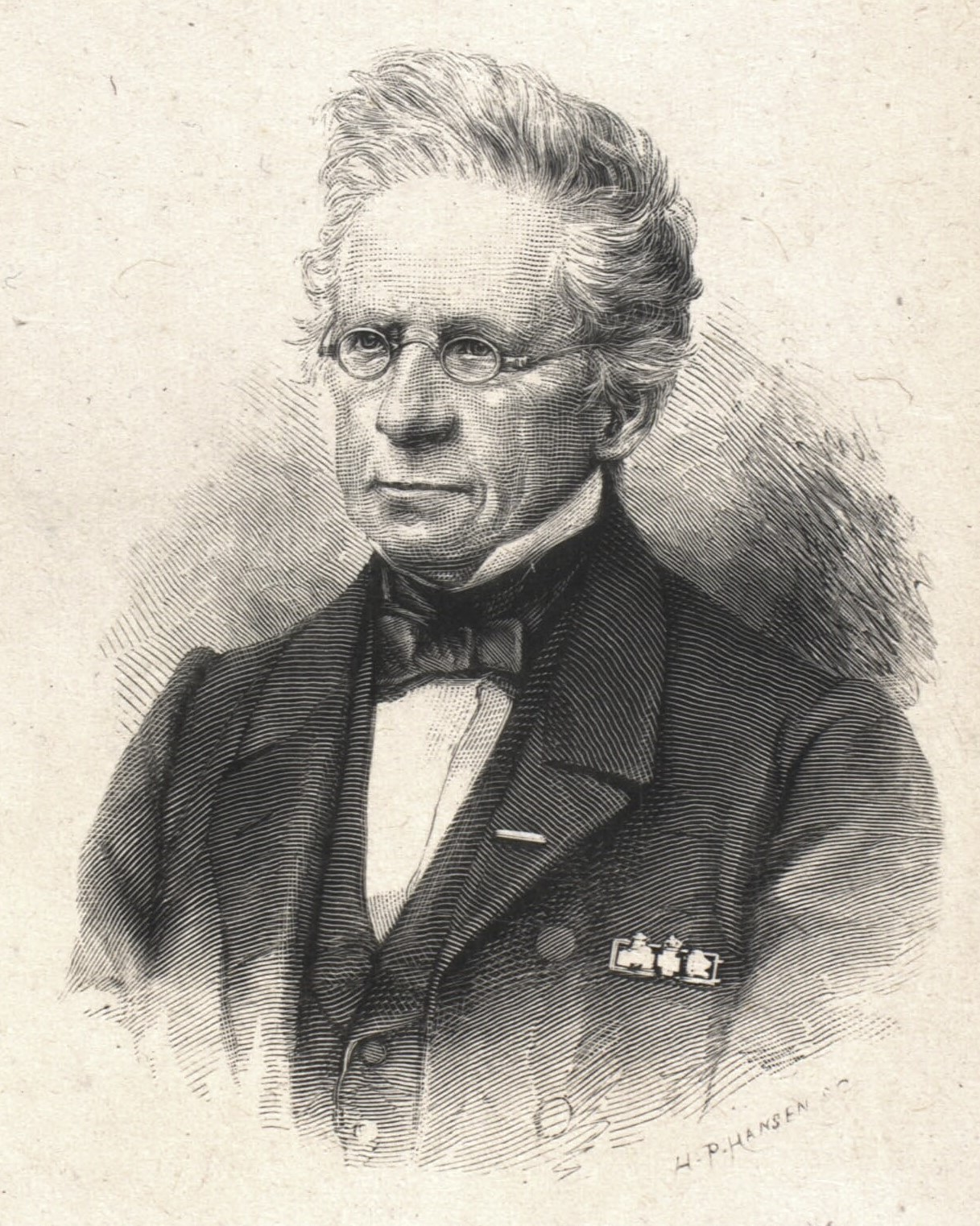 Christian Albrecht Bluhme (1794-1866), Prime Minister of Denmark